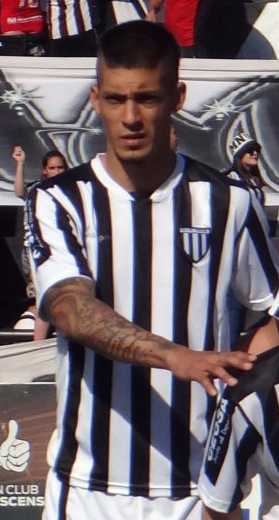 Pablo Palacios Alvarenga with the shirt of Gimnasia of Mendoza in 2017.